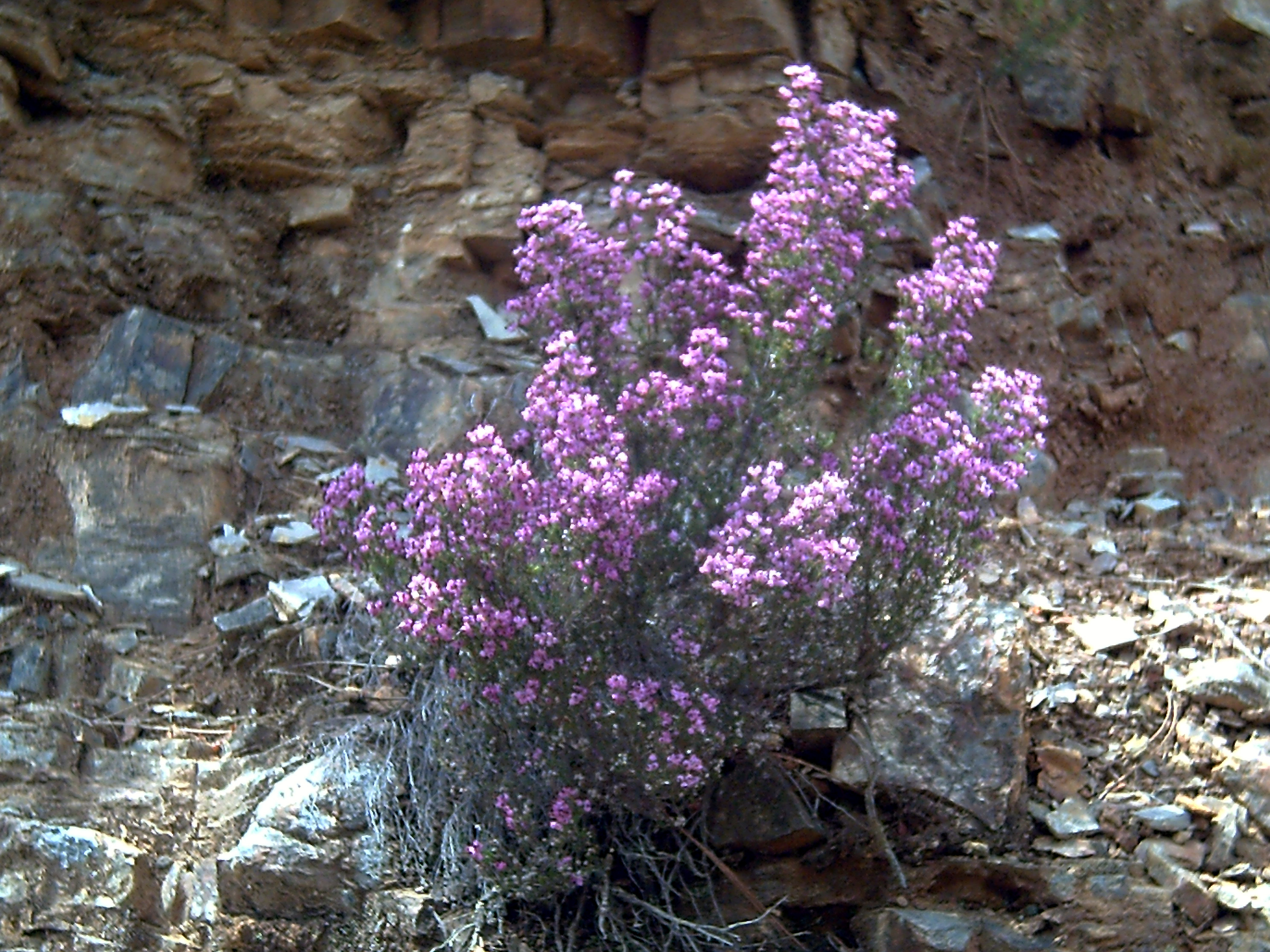 Erica umbellata Habitus, Dehesa Boyal de Puertollano, Spain